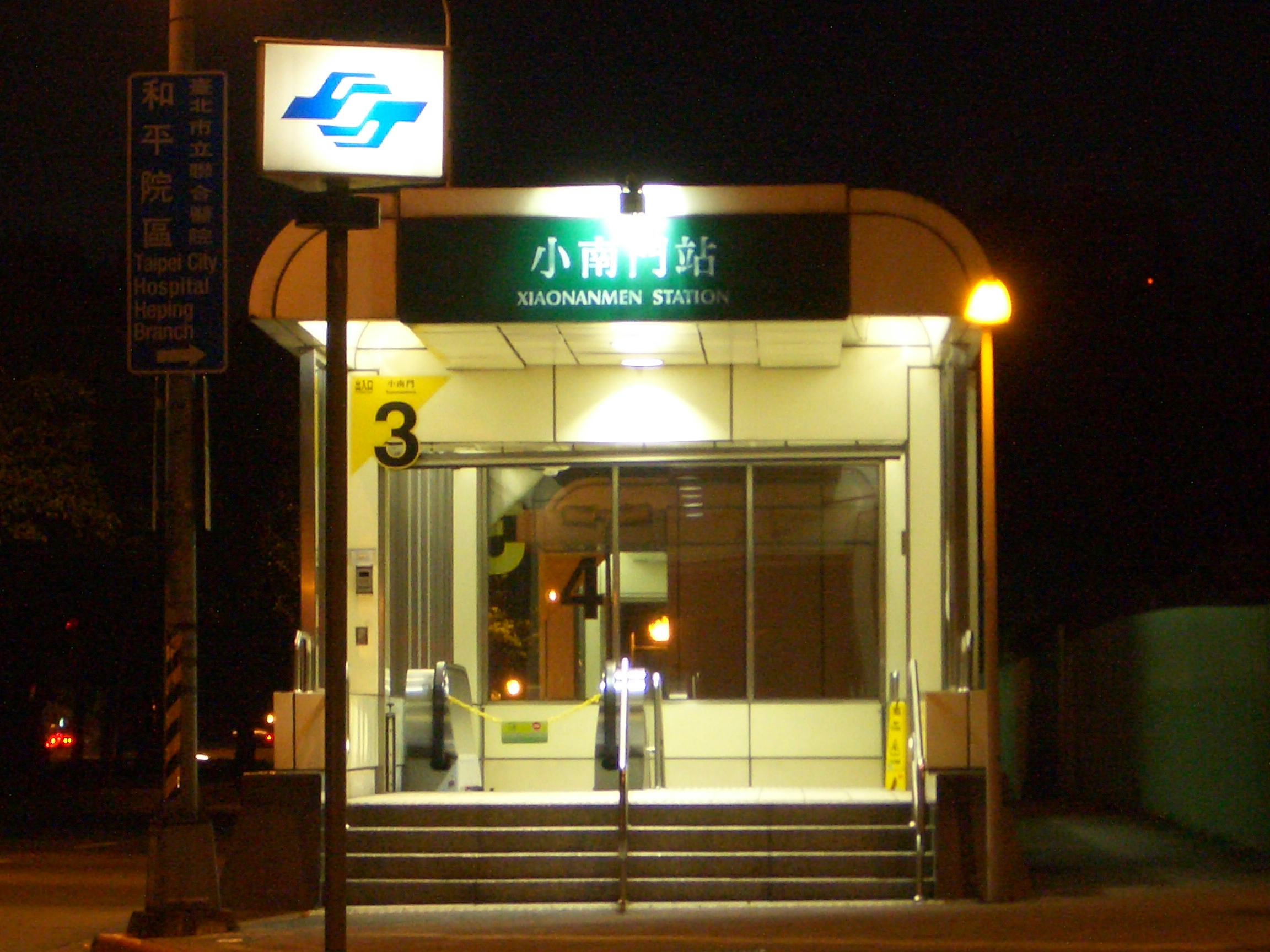 Night in Exit 3 of Taipei MRT Xiaonanmen Station.